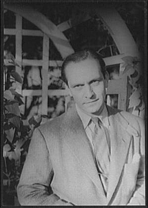 Portrait of Fredric March